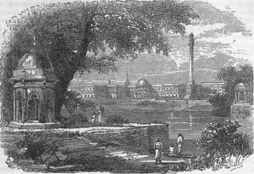 Shahid Minar, Kolkata.